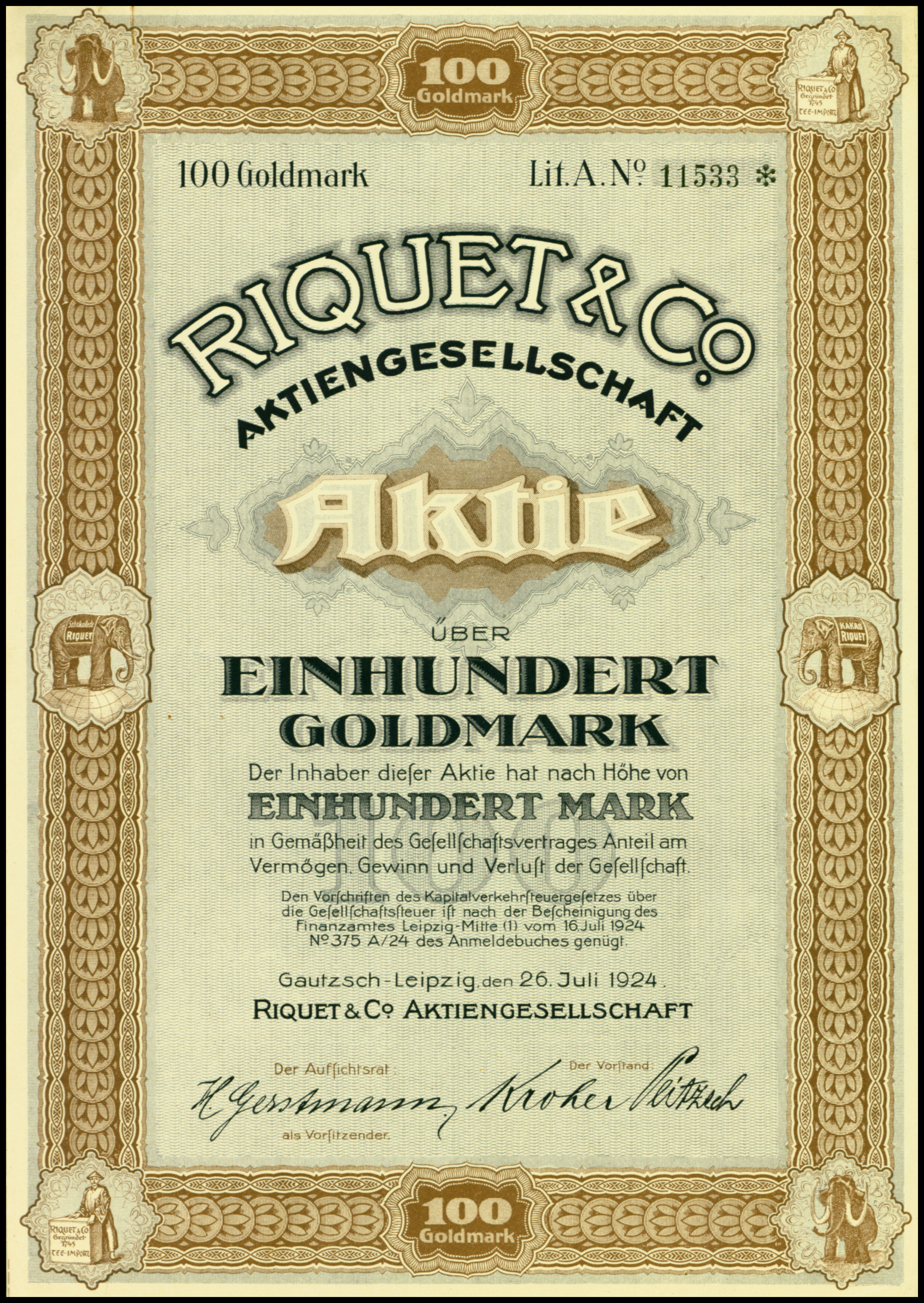 Share of the Riquet & Co AG, issued 26. July 1924